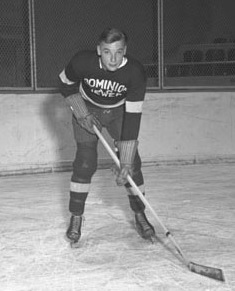 Hockey Hall of Famer Roy Conacher while a member of the Toronto Dominions senior team in 1936–37